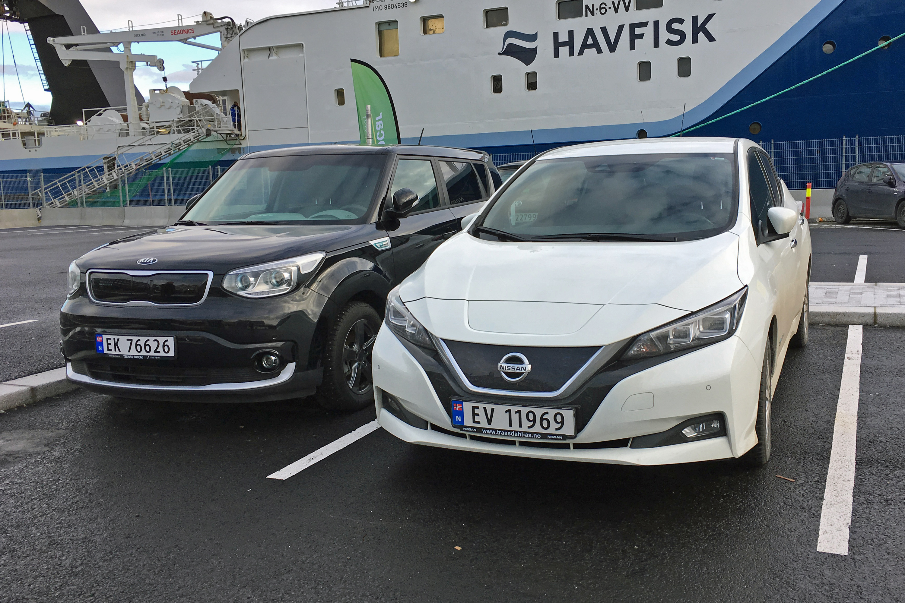 Kia Soul EV and Nissan Leaf in Tromso, Norway.